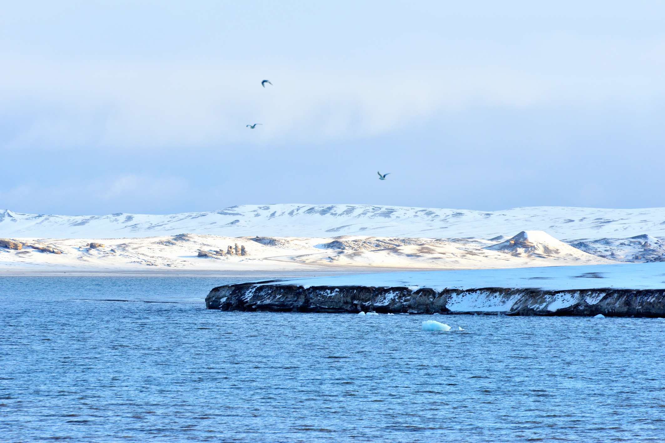 Zhuravlev Bay (Komsomolets Island, Severnaya Semlya, Russia)